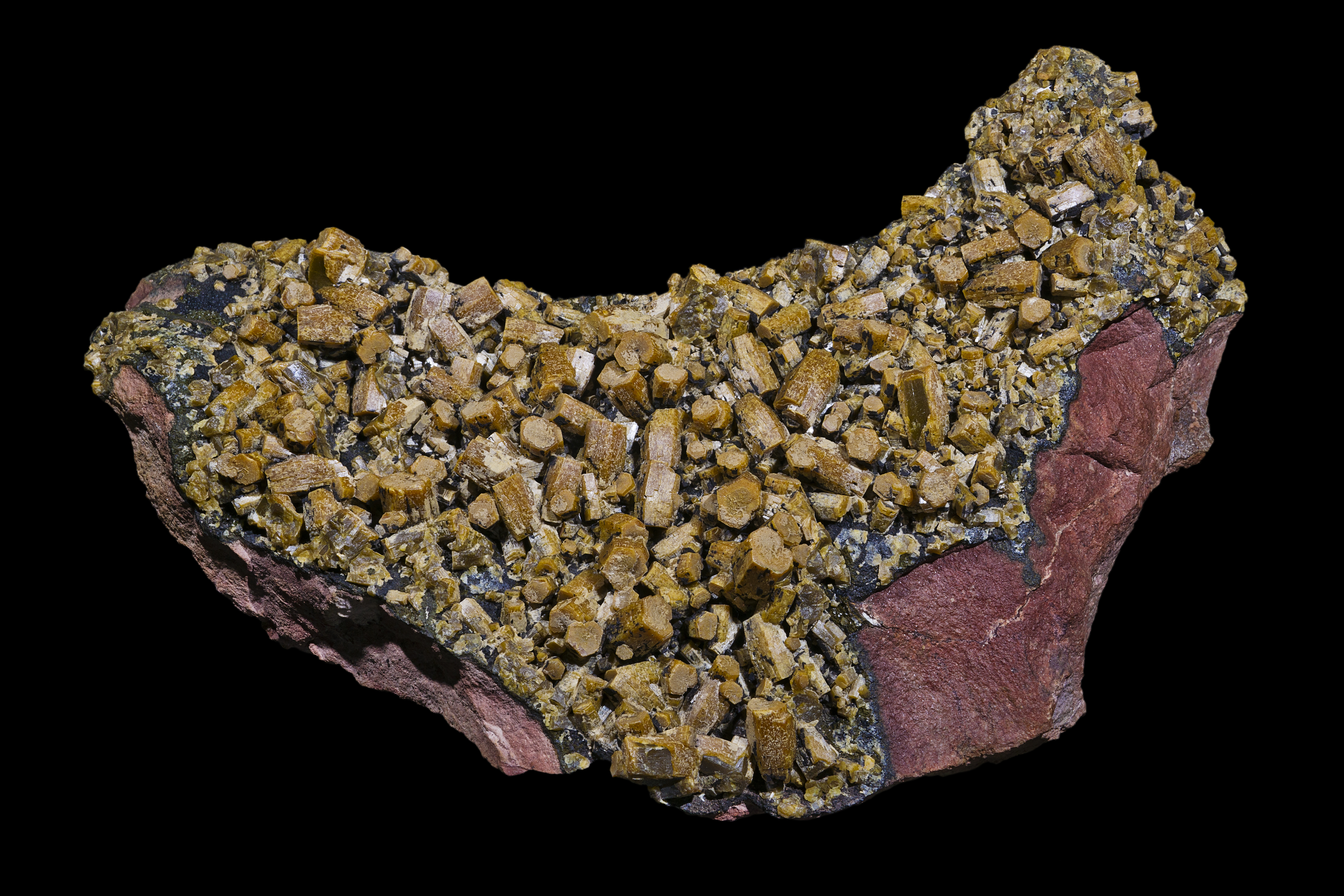 Vanadinite, (Var.: Arsenatian Vanadinite) on descloizite (black) Locality: Touissit, Touissit District, Oujda-Angad Province, Oriental Region, Morocco Size: specimen 38x24x12 cm - crystal 2.5 cm